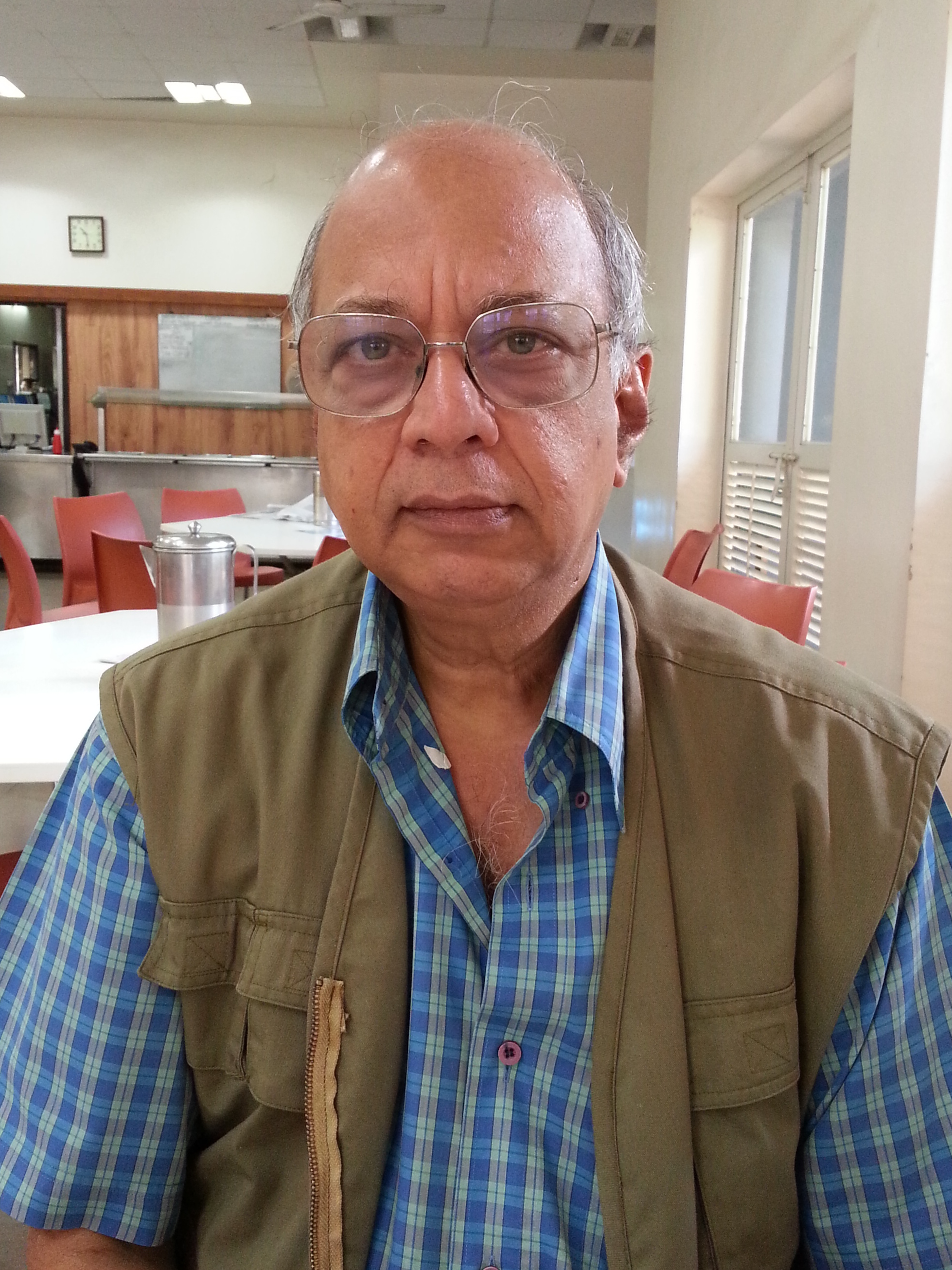 Satish Alekar is a famouc Marathi playwright based in Pune, India. This photo was taken during a f2f meeting with him at IUCAA, Pune.